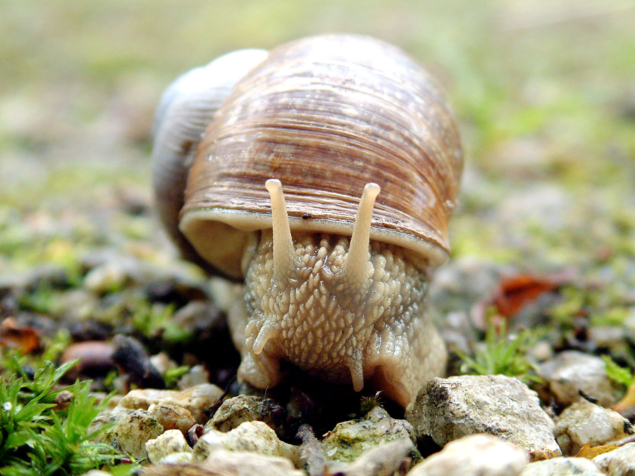 Helix pomatia - A closeup of a snail in a fishtank.